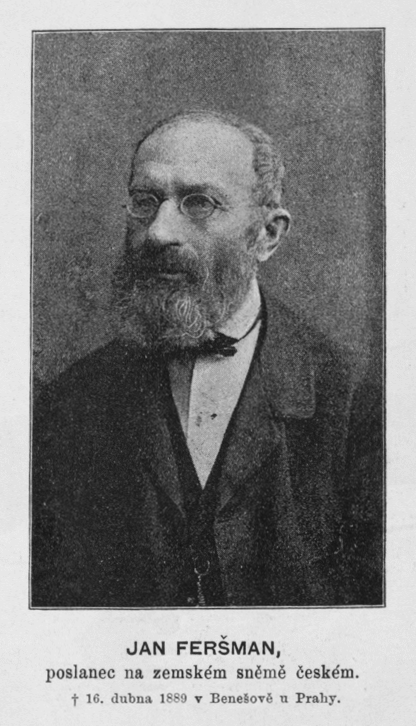 Portrait of Jan Feršman (1826-1889), Czech farmer and politician